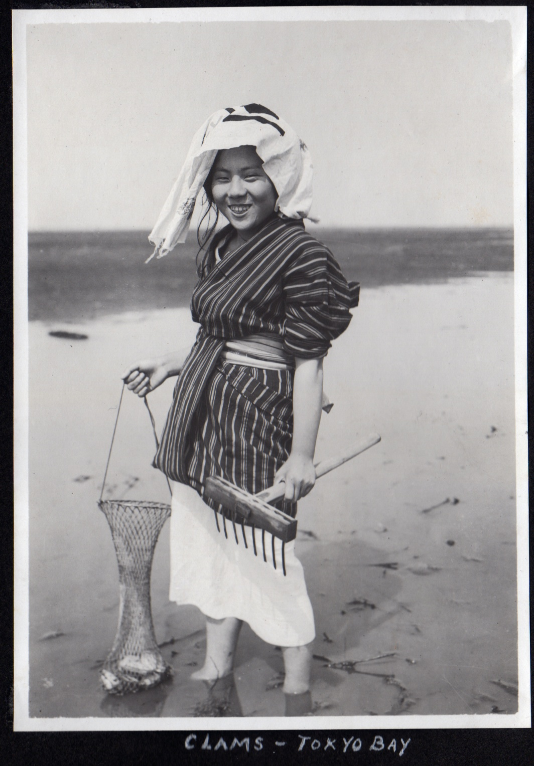 These photos are from an album my spouse's uncle, Elstner Hilton, compiled during his stay in Japan between 1914 and 1918. While the album contains many interesting and helpful notations about the subject matter, there is no indication as to the date the photo was taken. For that reason, all I can say is the photo dates from between 1914 and 1918.